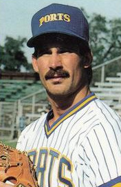 Professional baseball player Randy Veres